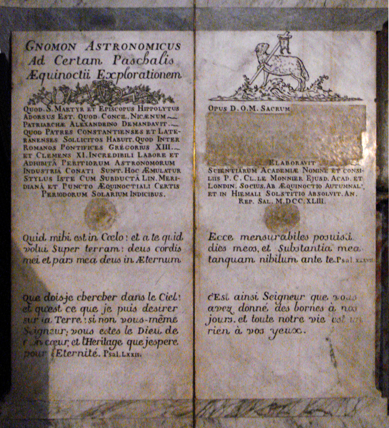 Gnomon_obelix inscription at Saint Sulpice